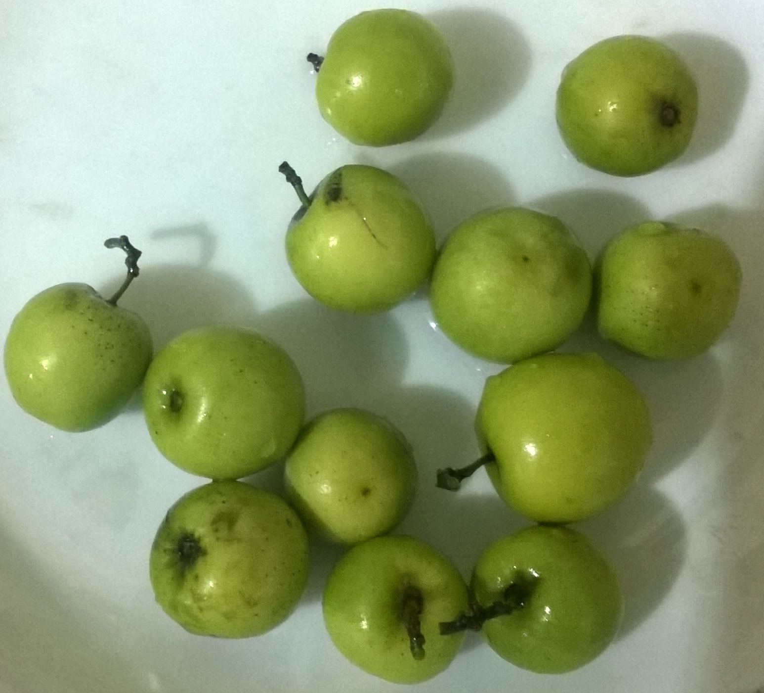 Jujube fruit in Bangladesh